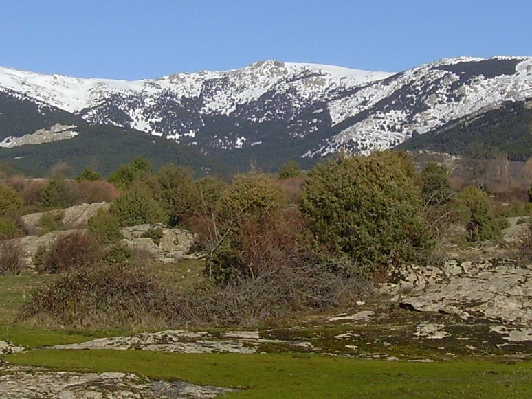 Loma de Bailanderos seen from the South (Guadarrama mountain range, central Spain).